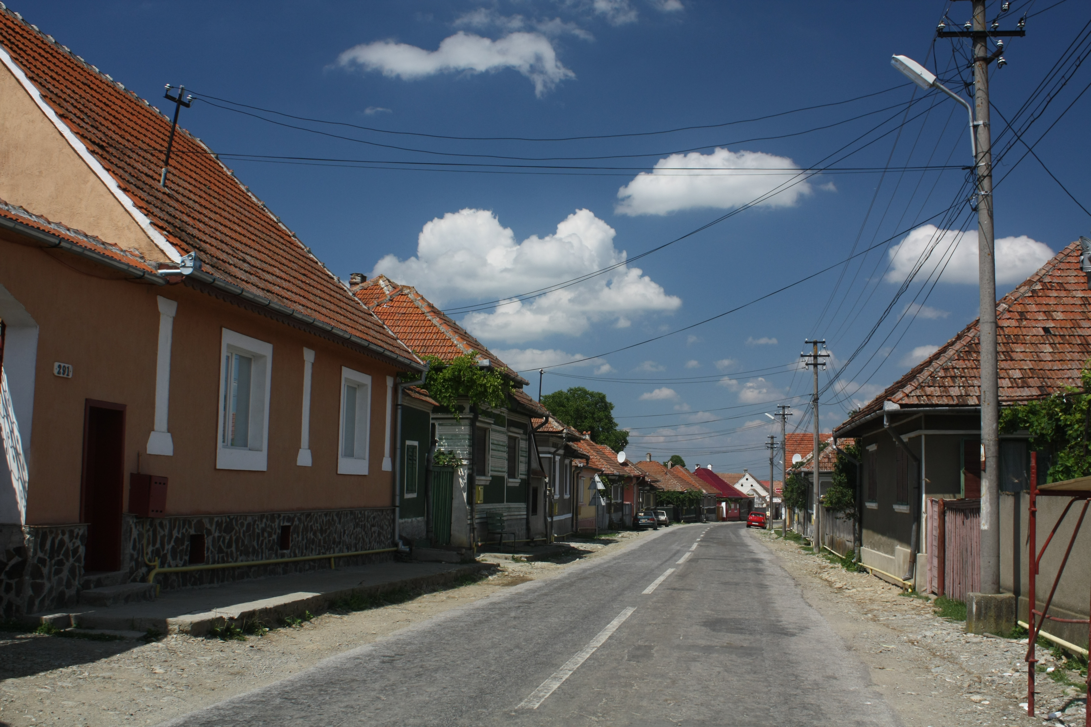 Cârțișoara, Sibiu County, Romania Object location 45° 43′ 34.52″ N, 24° 34′ 27.37″ E - OpenStreetMap - Proximityrama (Info)